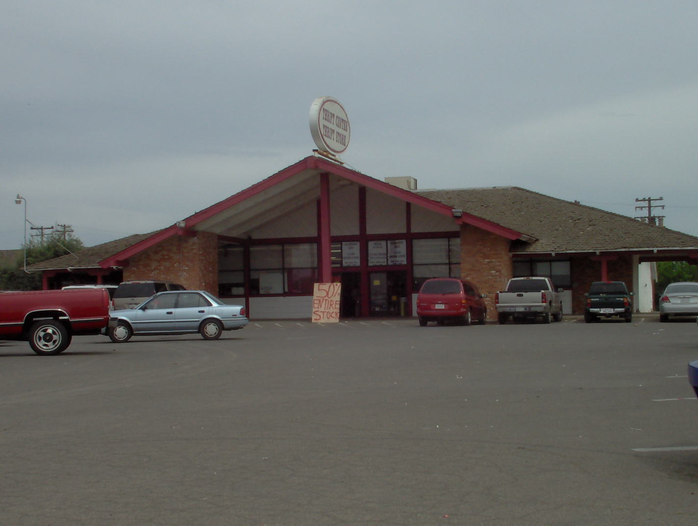 Former supermarket, now thrift store, built in late 1950's in California. Notice characteristic ranch style features, rustic design, shake roof, simple brick piers.